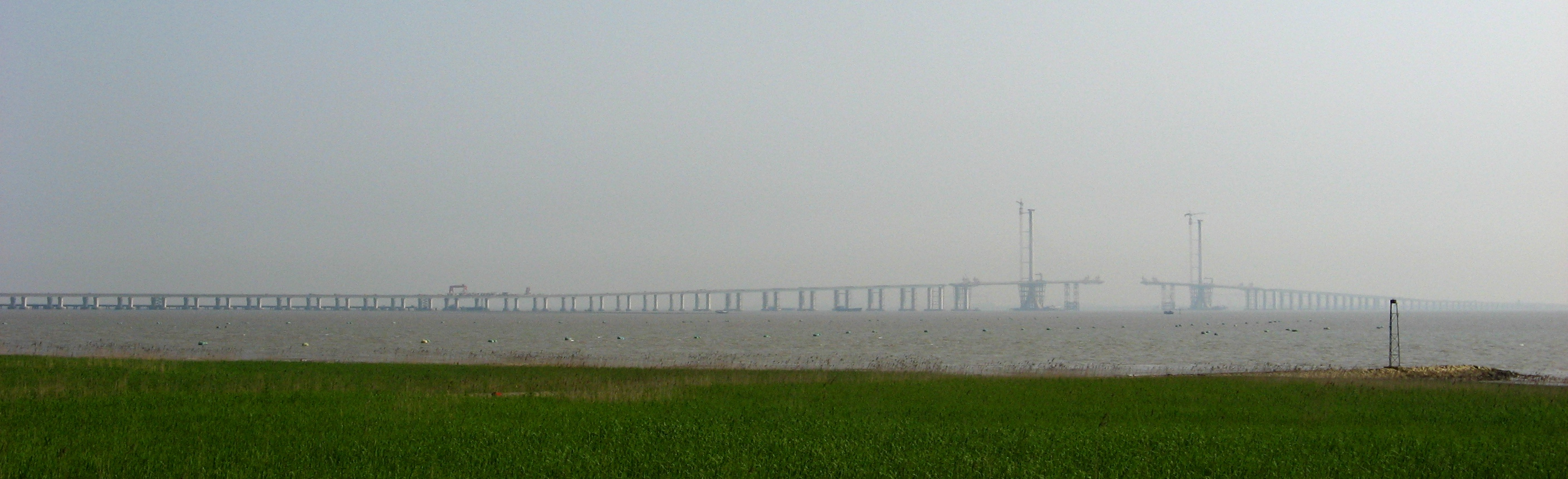 Chongming Island Bridge-tunnel under construction, May 2008